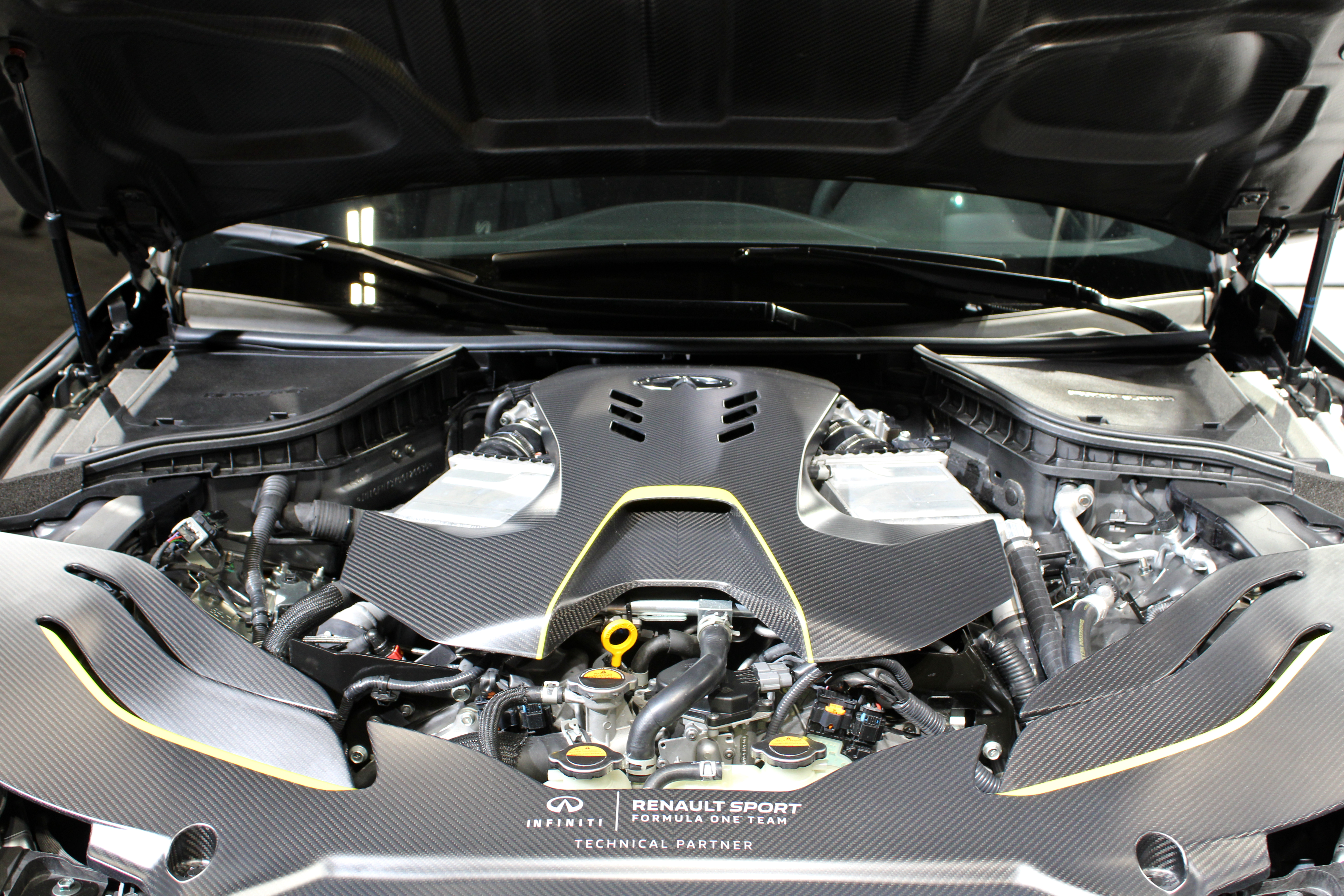 Infiniti Q60 Project Black S at Paris Motor Show 2018